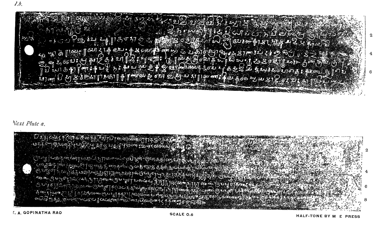 Tirupparappu fragmentary copper plate inscription (Ay dynasty)